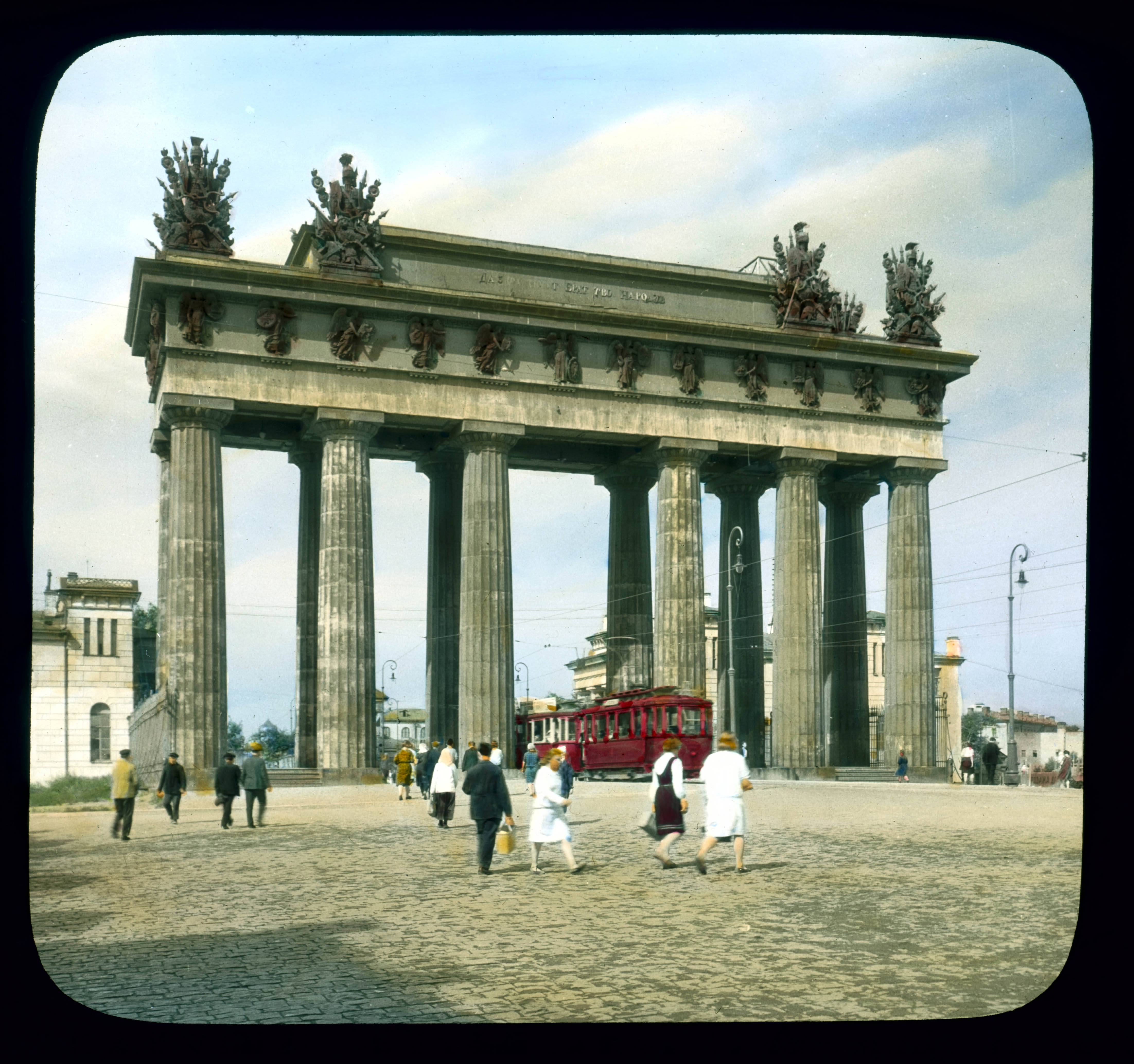 Saint Petersburg. Moscow Triumphal Gate, commemorating victory over Turkey in 1828